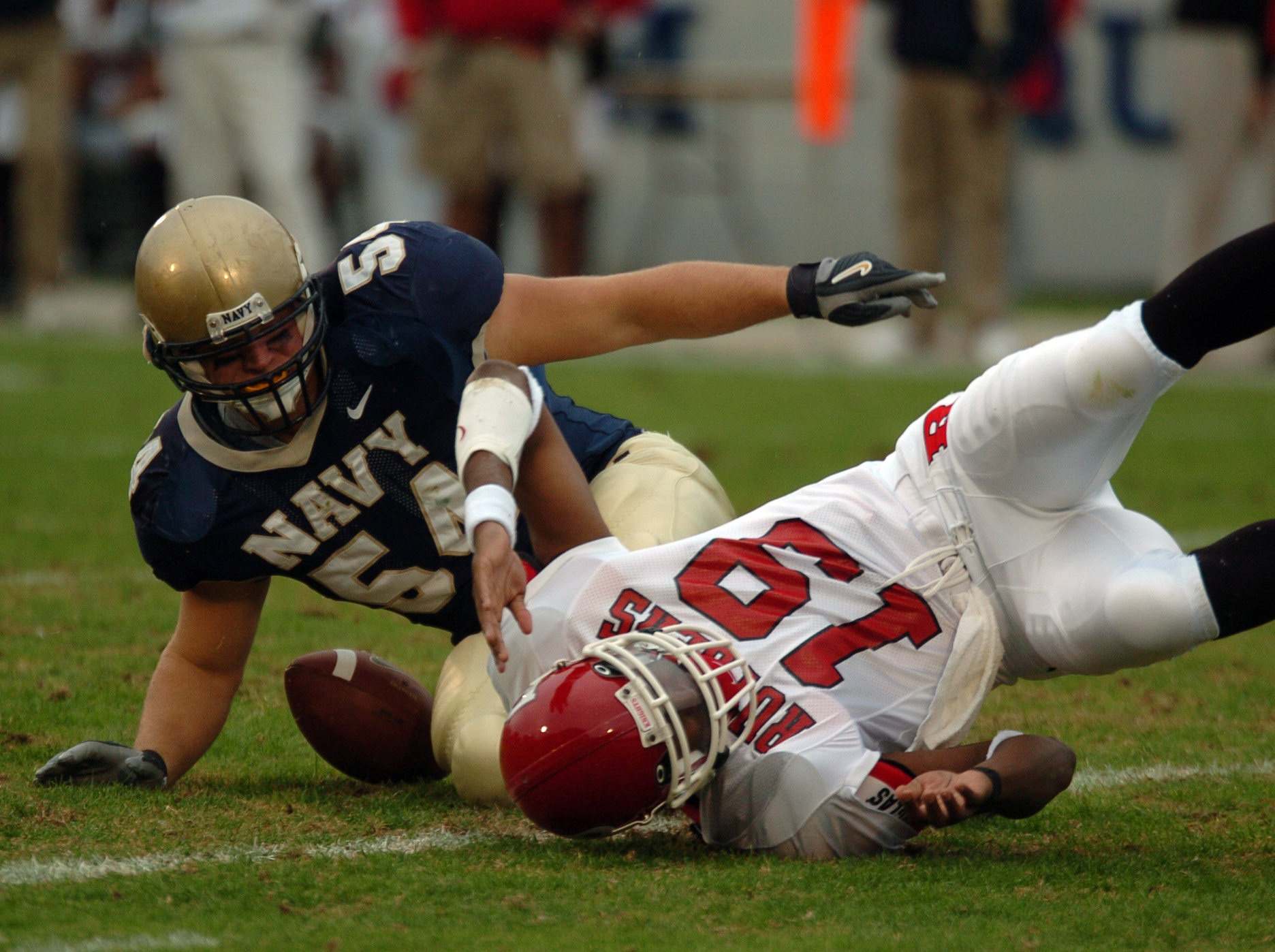 U.S. Naval Academy Midshipman 1st Class Adam Horne rolls out of the play after causing Rutgers University (4-5) Terrance Shawell to fumble.